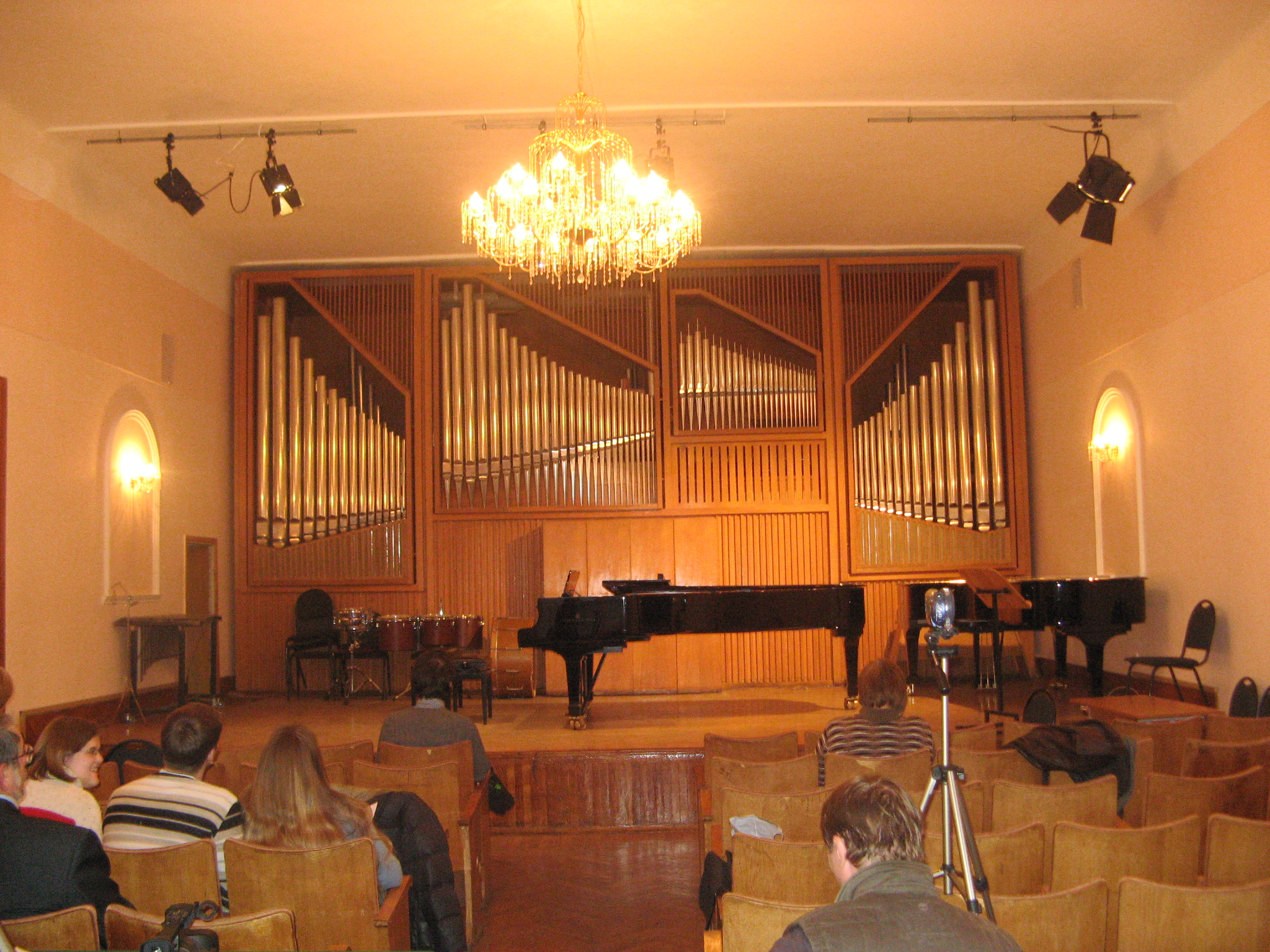 Interioir of the Academy music college(former Building of the Grammar school 110), Merzlyakovsky 11, Moscow, Russia